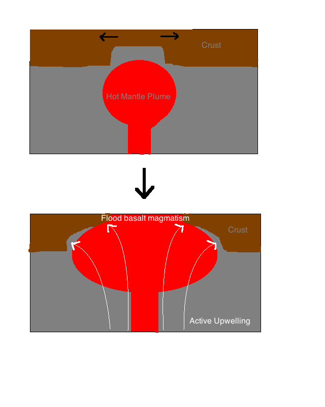 mantle plume magmatism for continental breakup